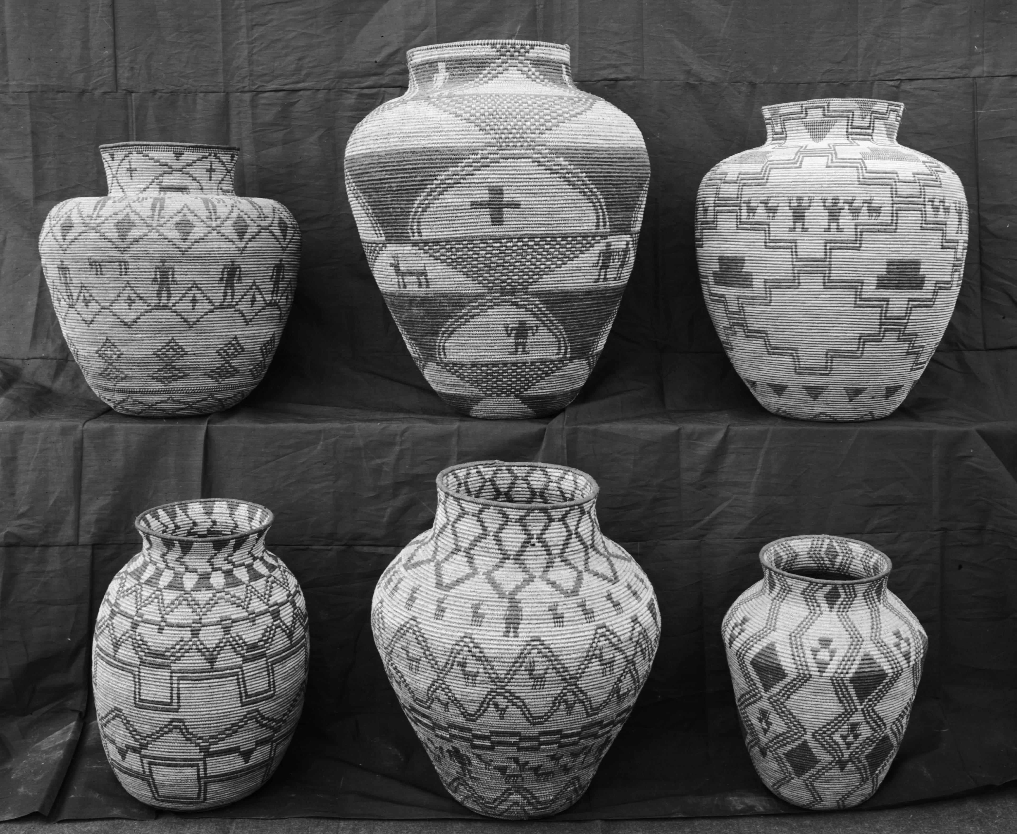 A collection of Apache Indian baskets (ollas) on display, ca.1900 Photograph of a collection of 6 Apache Indian baskets (ollas, or, water jugs) on display, photographed ca.1900. They are displayed on a dark cloth spread over two tiers. The shapes are all variations on a theme. They have varying design elements including: steps, diamonds, human figures, crosses, etc. Call number: CHS-3555 Photographer: Pierce, C.C. (Charles C.), 1861-1946 Filename: CHS-3555 Coverage date: circa 1900 Part of collection: California Historical Society Collection, 1860-1960 Type: images; physical objects Part of subcollection: Title Insurance and Trust, and C.C. Pierce Photography Collection, 1860-1960 Repository name: USC Libraries Special Collections Format: glass plate negatives Microfiche number: 1-162- Archival file: chs_Volume95/CHS-3555.tiff Repository address: Doheny Memorial Library, Los Angeles, CA 90089-0189 Subject (adlf): tribal areas Geographic subject (country): USA Format (aacr2): 2 photographs : glass photonegative, photoprint, b&w ; 17 x 22 cm. Rights: Digitally reproduced by the USC Digital Library; From the California Historical Society Collection at the University of Southern California Project: USC Accession number: 3555 Repository Contributing entity: California Historical Society Date created: circa 1900 Publisher (of the digital version): University of Southern California. Libraries Format (aat): photographic prints; photographs Legacy record ID: chs-m16164; USC-1-1-1-14023 Access conditions: Send requests to address or e-mail given. Phone (213) 821-2366; fax (213) 740-2343. Subject (file heading): Indians -- Arts and crafts -- Basketry Subject (lcsh): Indians of North America; Indians of North America -- Industries; Baskets; Indians of North America -- Basket making